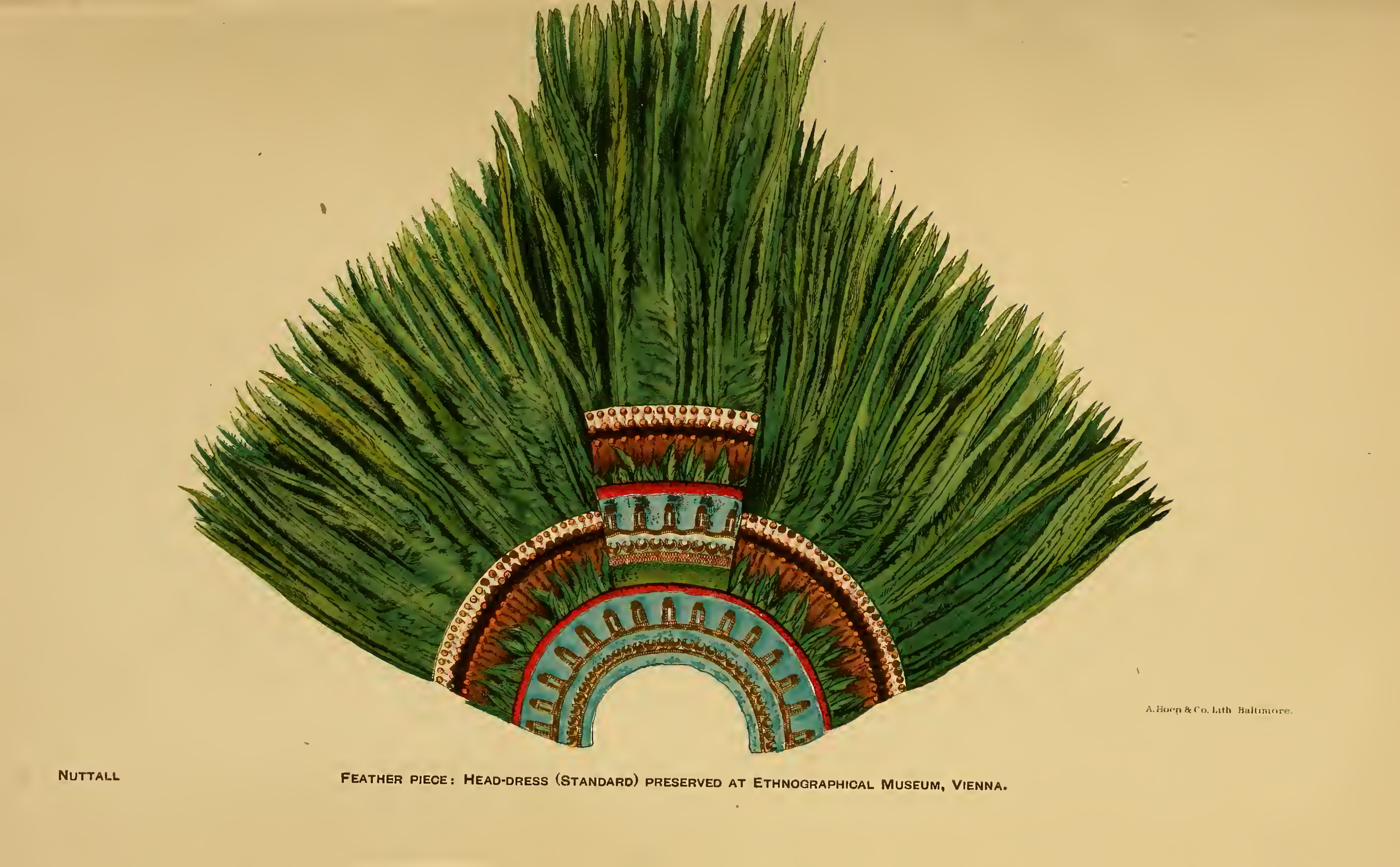 Feather Piece; Head-dress (Standard) preserved at Ethnographical Museum, Vienna. From Zelia Nuttall (1895) Ancient Mexican feather work at the Columbian historical exposition at Madrid, facing page 330